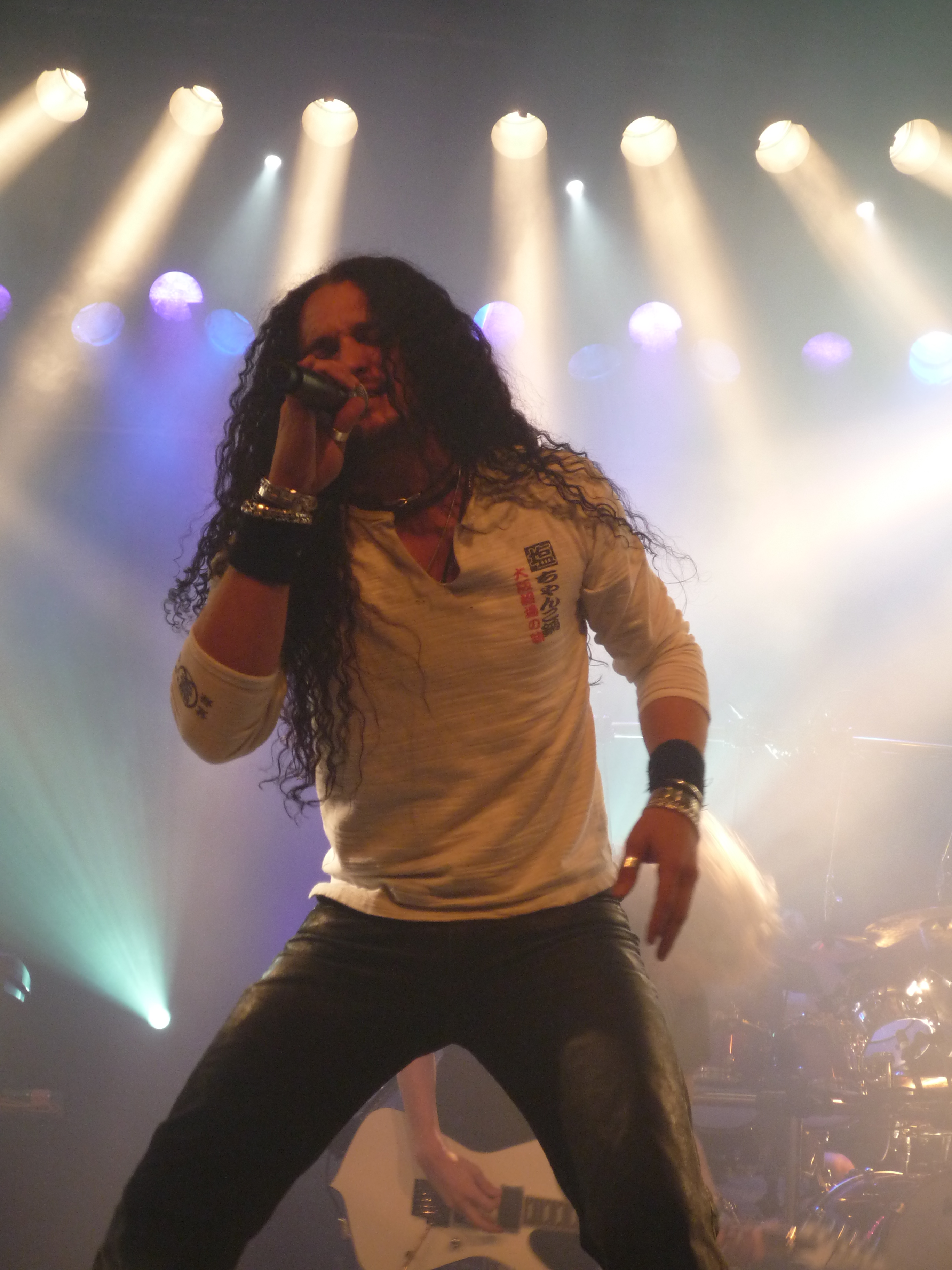 The singer ZP Theart from the band Dragonforce in "Szene Wien", together on tour with Turisas.